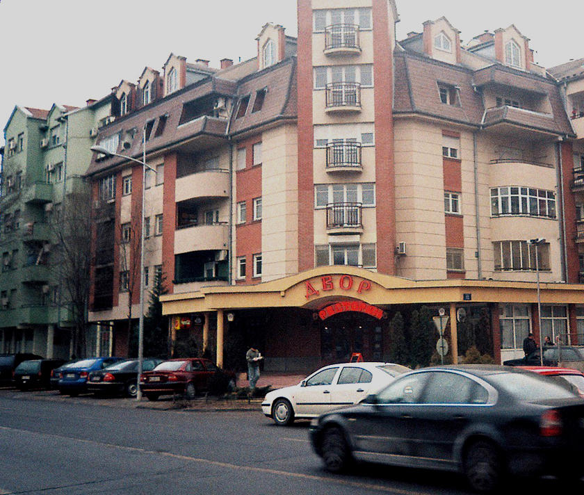 Image of Adamovićevo Naselje neighborhood in Novi Sad (self made)